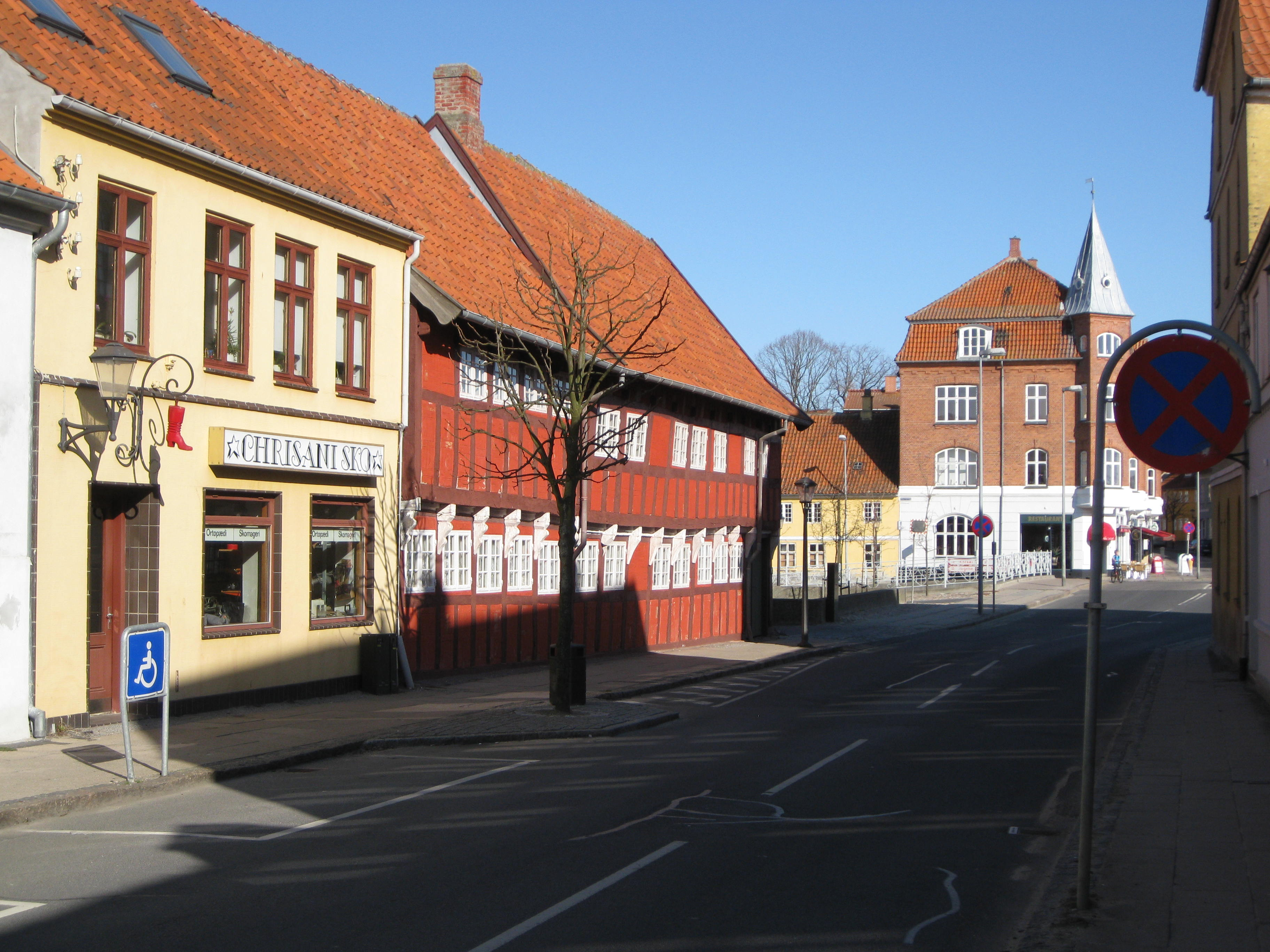 The street "Vestergade" in Skælskør. The town is located in West Zealand, Denmark.